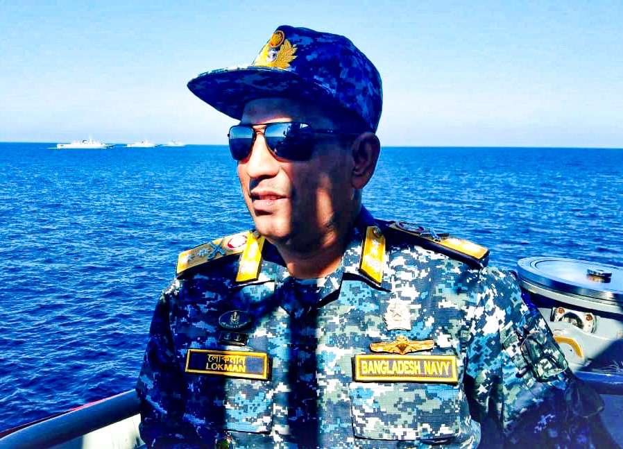 Rear Admiral M Lokmanur Rahman looks on during Bangladesh Navy's annual sea exercise, Exercise Safeguard 2019